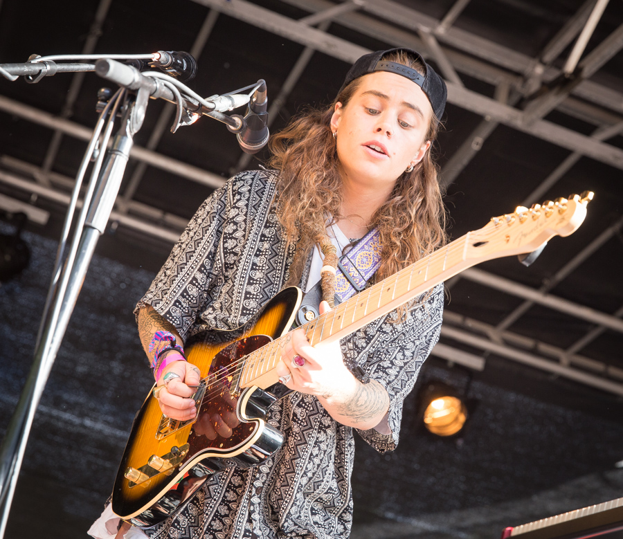 Tash Sultana at the minor stage in the Vigeland Park. The concert was part of Piknik i Parken and took place on 24. June 2017 in Oslo. Lineup: Tash Sultana (vocal and keyboard)